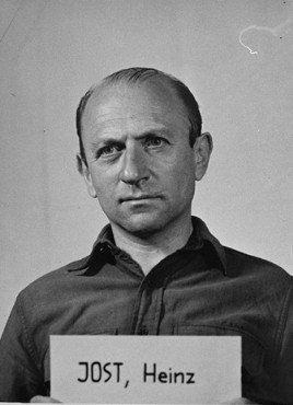 Mug shot of Heinz Jost for Einsatzgruppen trial before Nuremberg Military Tribunal.